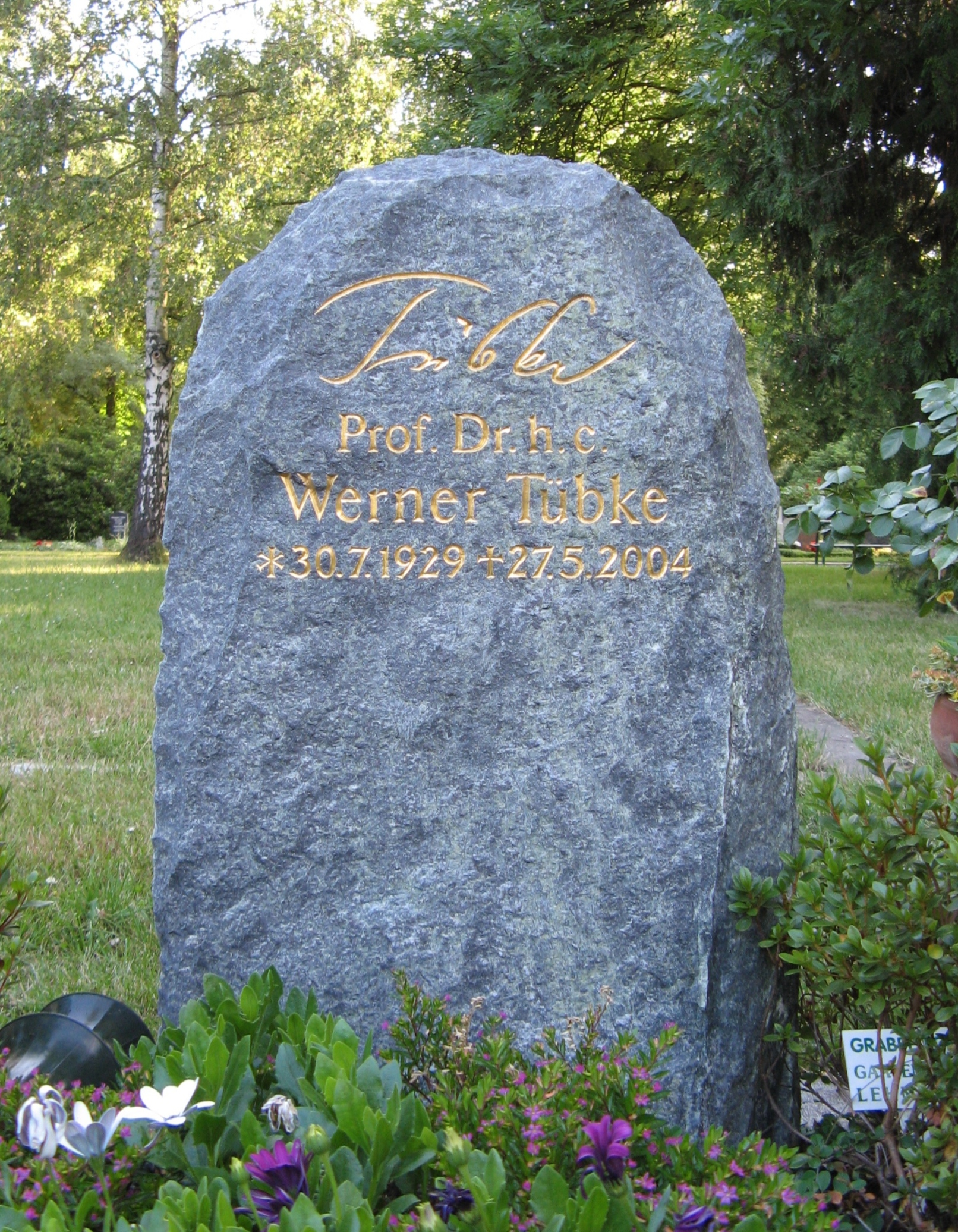 Gravestone of German painter and illustrator Werner Tübe at the Southern Cemetery Leipzig